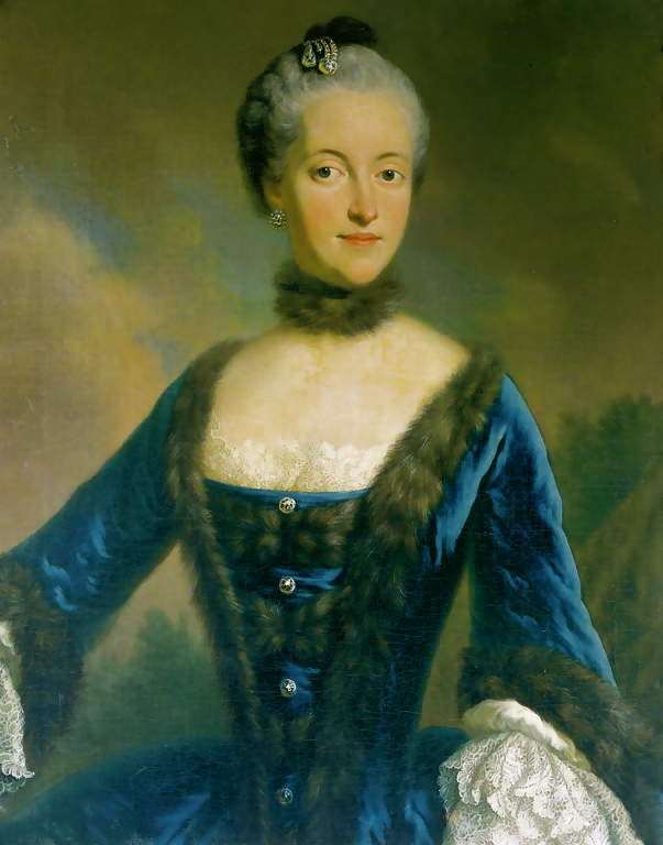 Princess Maria Josepha Antonia of Bavaria, daughter of Elector Charles VII. of Bavaria (i.e of Holy Roman Emperor Karl VI) and his wife Archduchess Maria Amalia of Austria (daughter of Holy Roman Emperor Joseph I of Austria), second wife of Holy Roman Emperor Joseph II of Austria